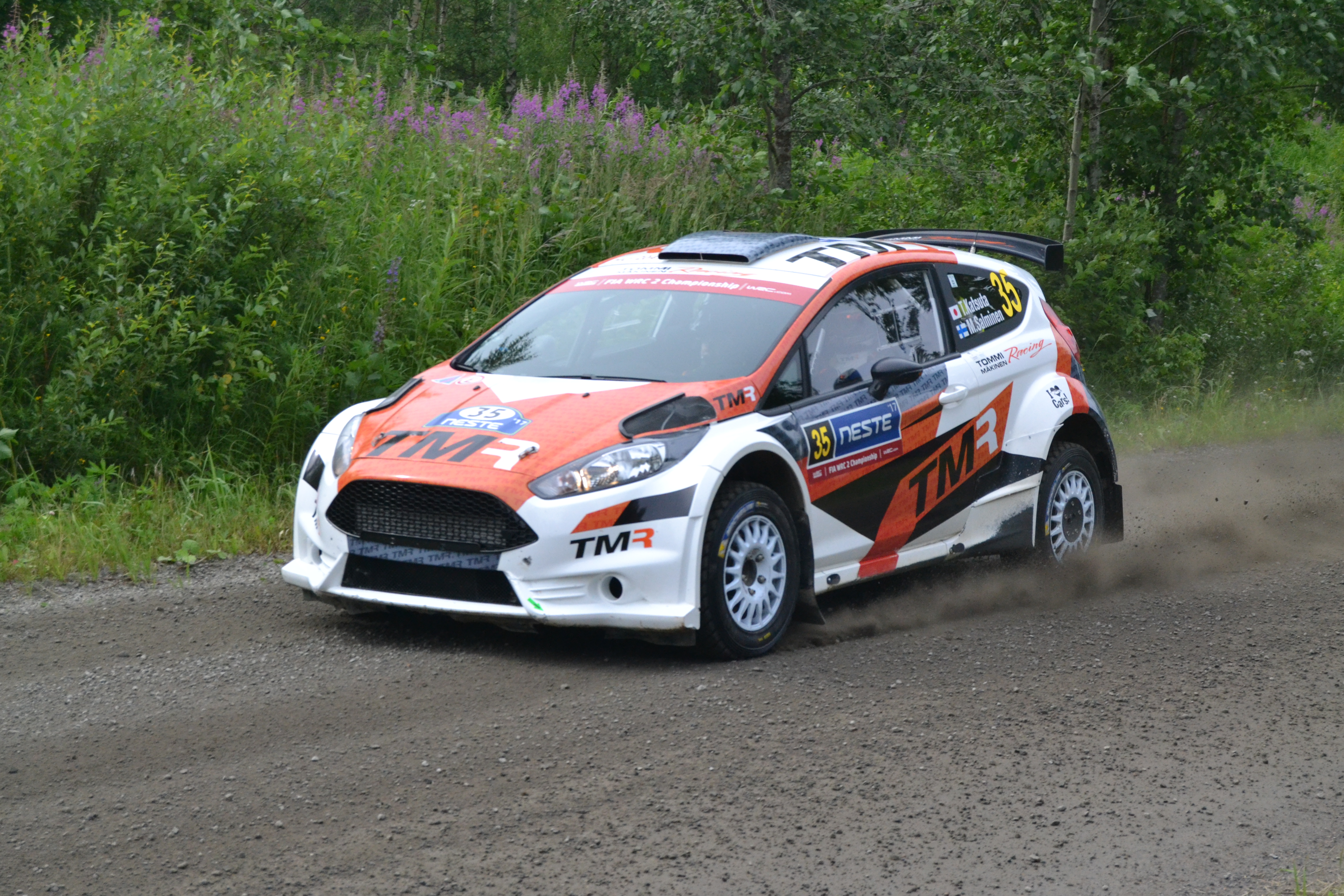 Takamoto Katsuta at second Saalahti stage at Rally Finland 2017